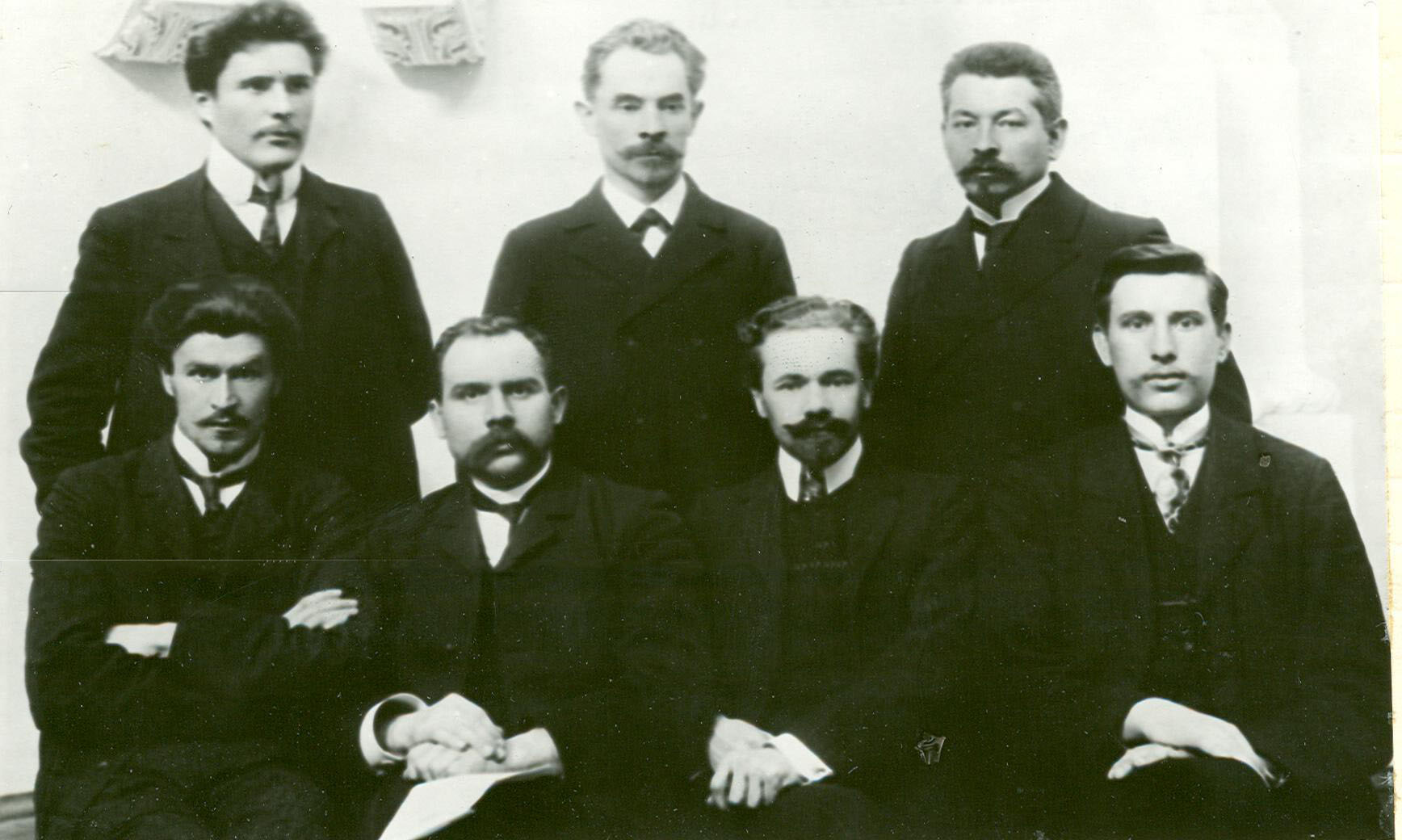 Members of II State Duma of the Russian Empire from LithuaniaLietuvių: Rusijos II Valstybės Dūmos deputatai